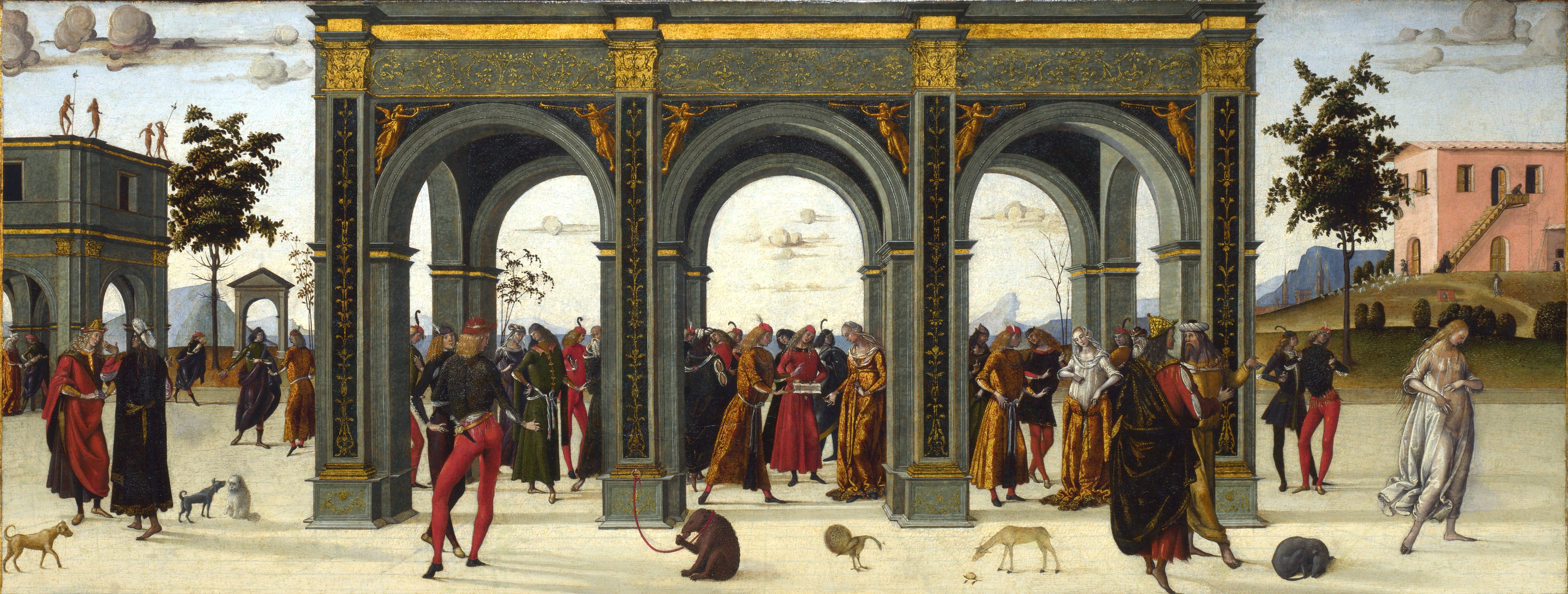 Decameron, Tenth tale (X, 10): The Story of Griselda, Part II: Exile. This painting is part of the group: Spalliera Panels with the Story of Patient Griselda